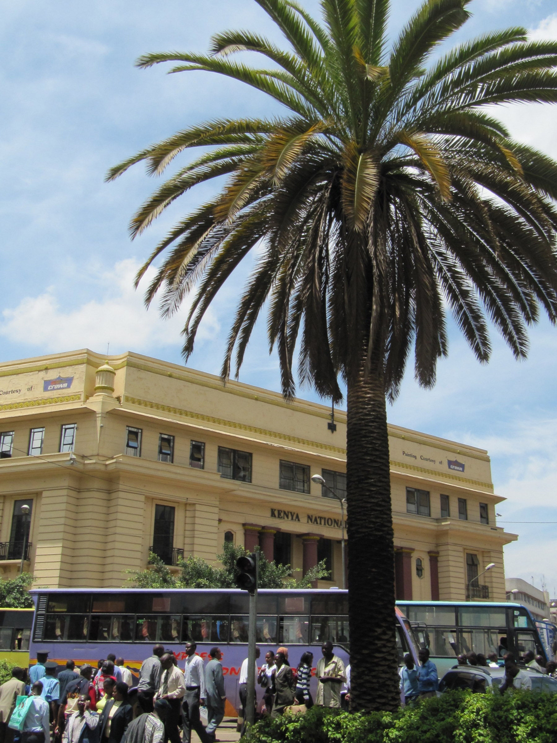 Kenya National Archives, Nairobi, Kenya